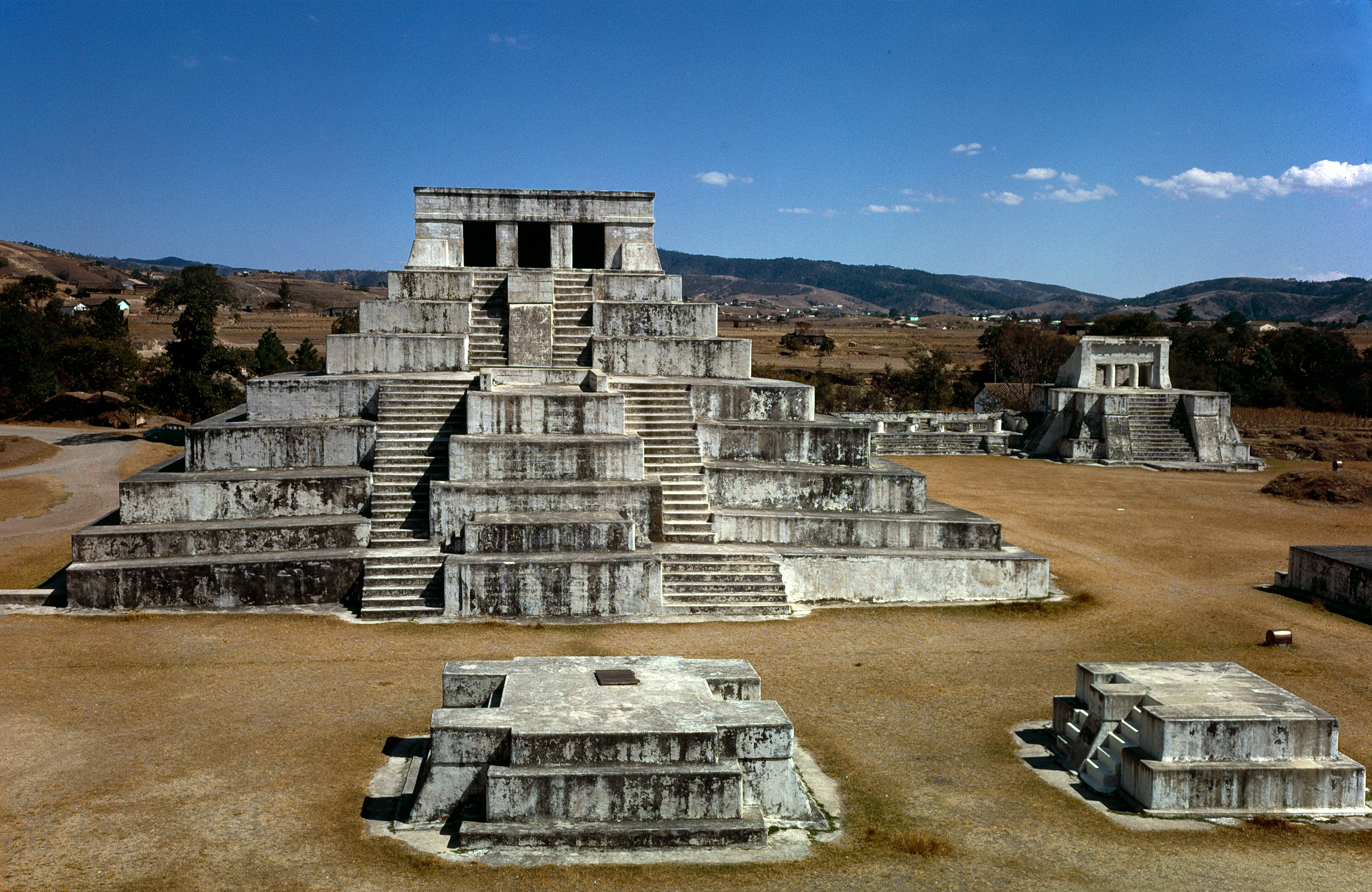 Zacuelu, Guatemala: Main pyramid